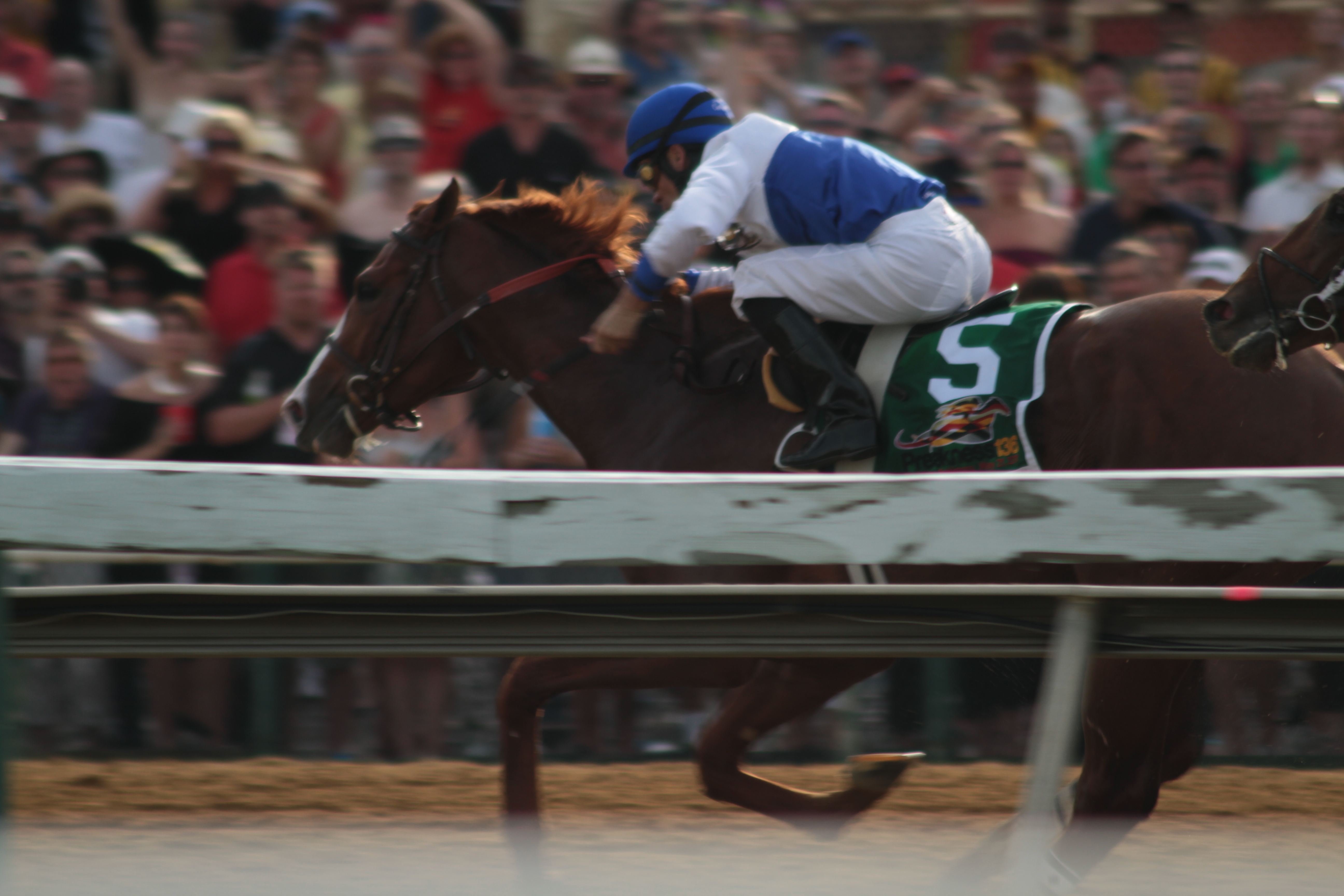 Shackleford, winner of the 2011 Preakness Stakes. Second place finisher's (Animal Kingdom) nose is at far right.